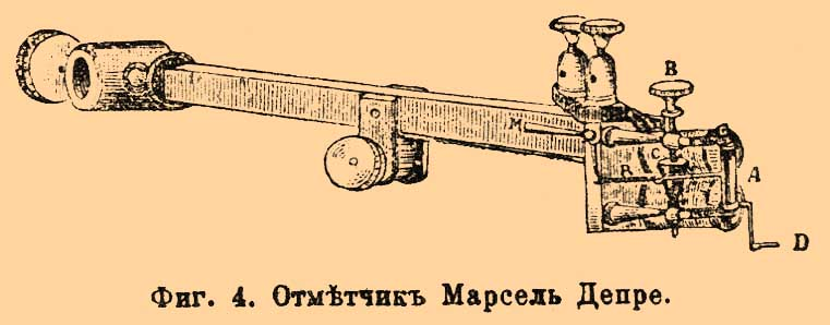 Illustration from Brockhaus and Efron Encyclopedic Dictionary (1890—1907)